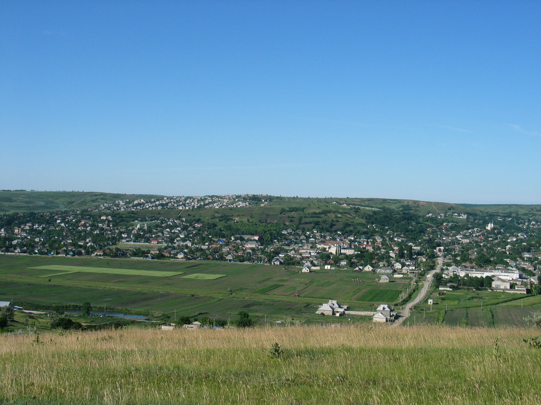 Costesti